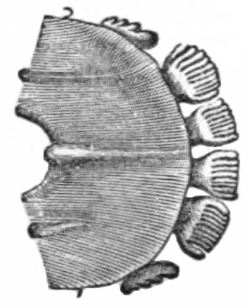 Illustration of a colugo toothcomb. Caption reads: "Lower jaw of Galeopithecus"